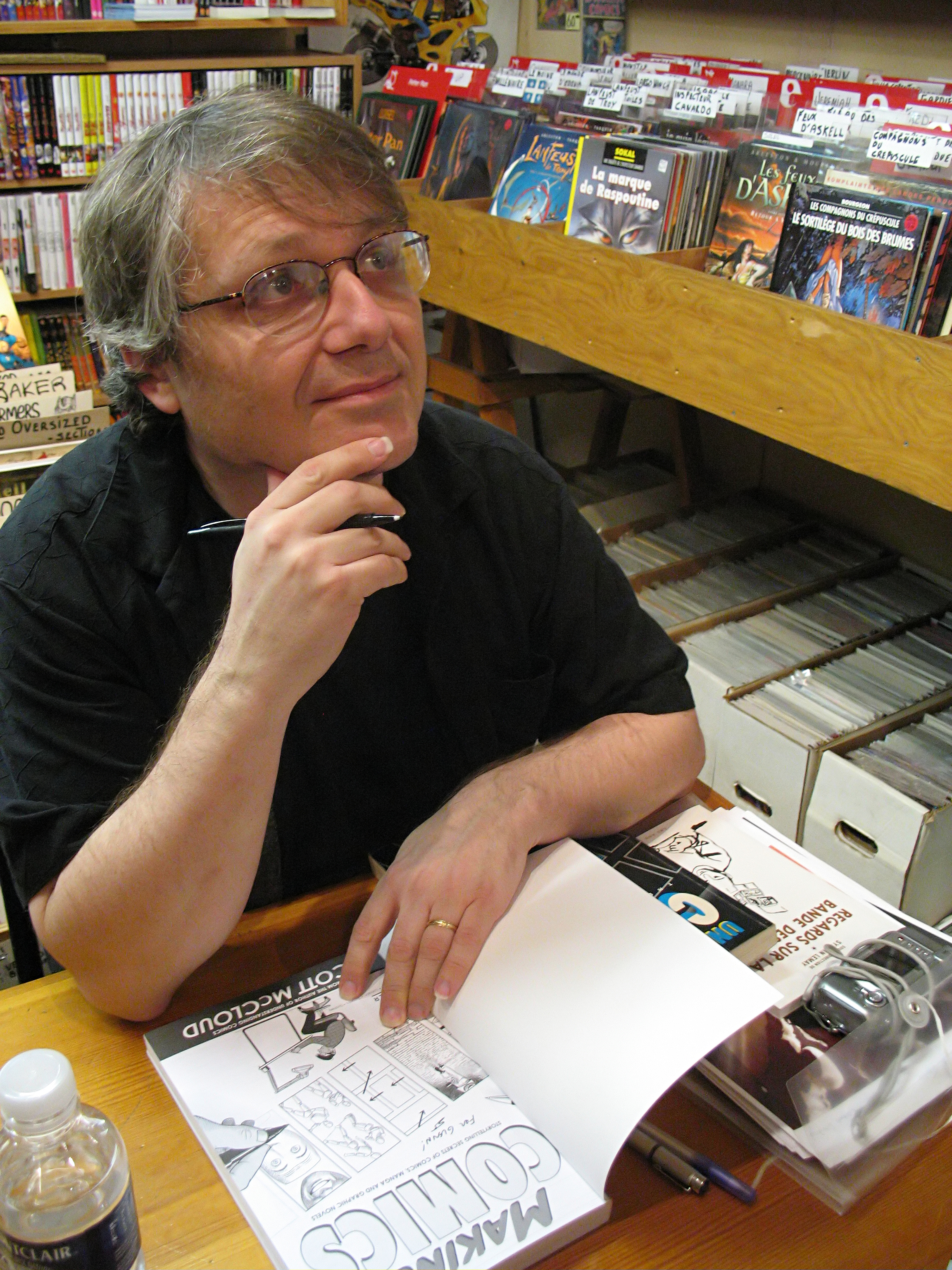 Photo of comics author/artist Scott McCloud at a book signing in Montreal, Quebec.